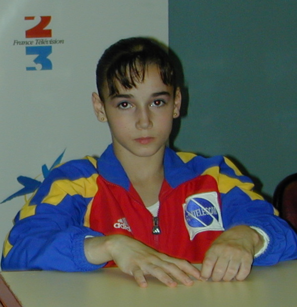 (straightened version) Sabina Cojocar at press conference after winning the all-around at the 2000 Jr. European Gymnastics Championships in Paris